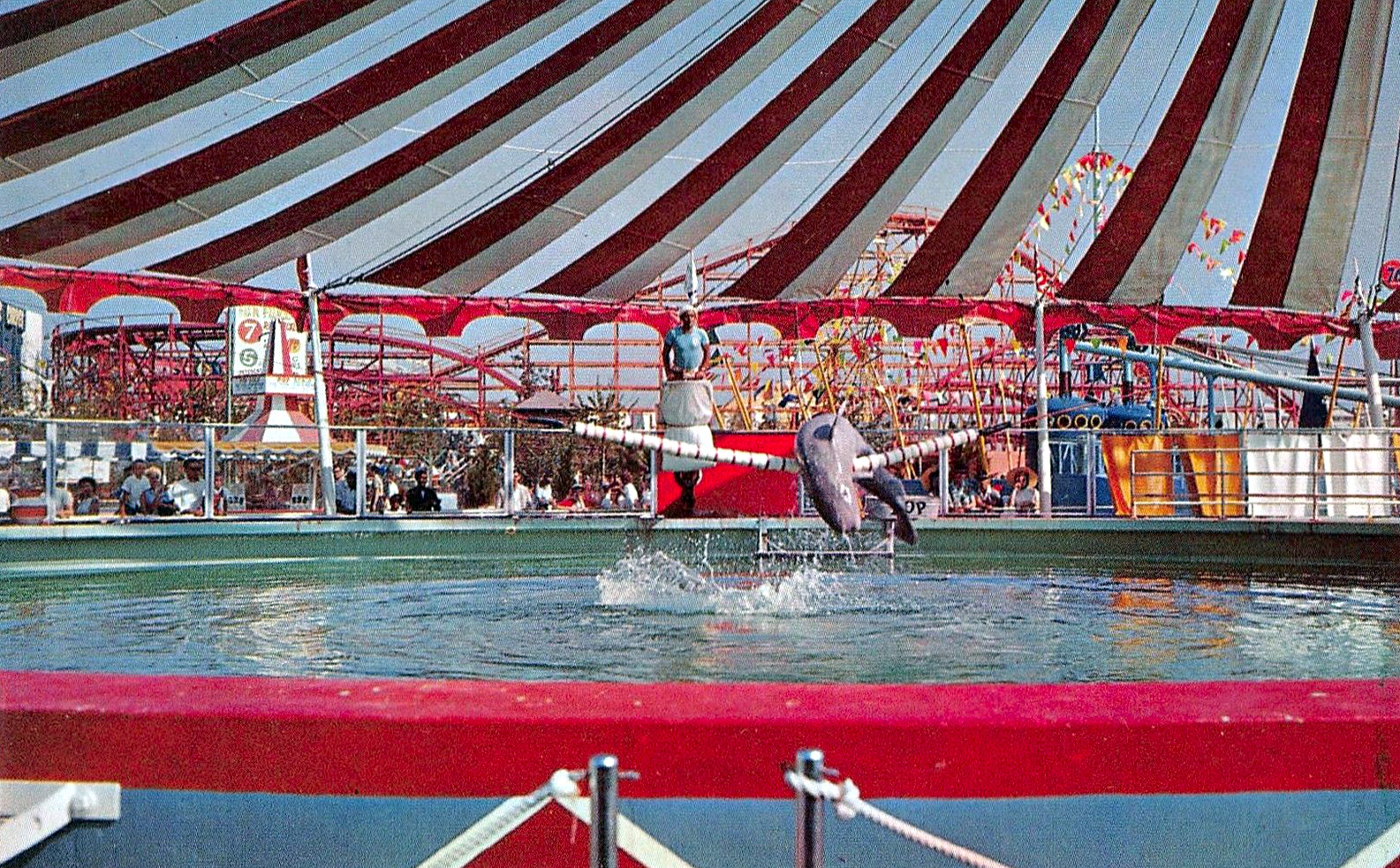 Postcard photo of The Sea Circus at Pacific Ocean park, Santa Monica, California.